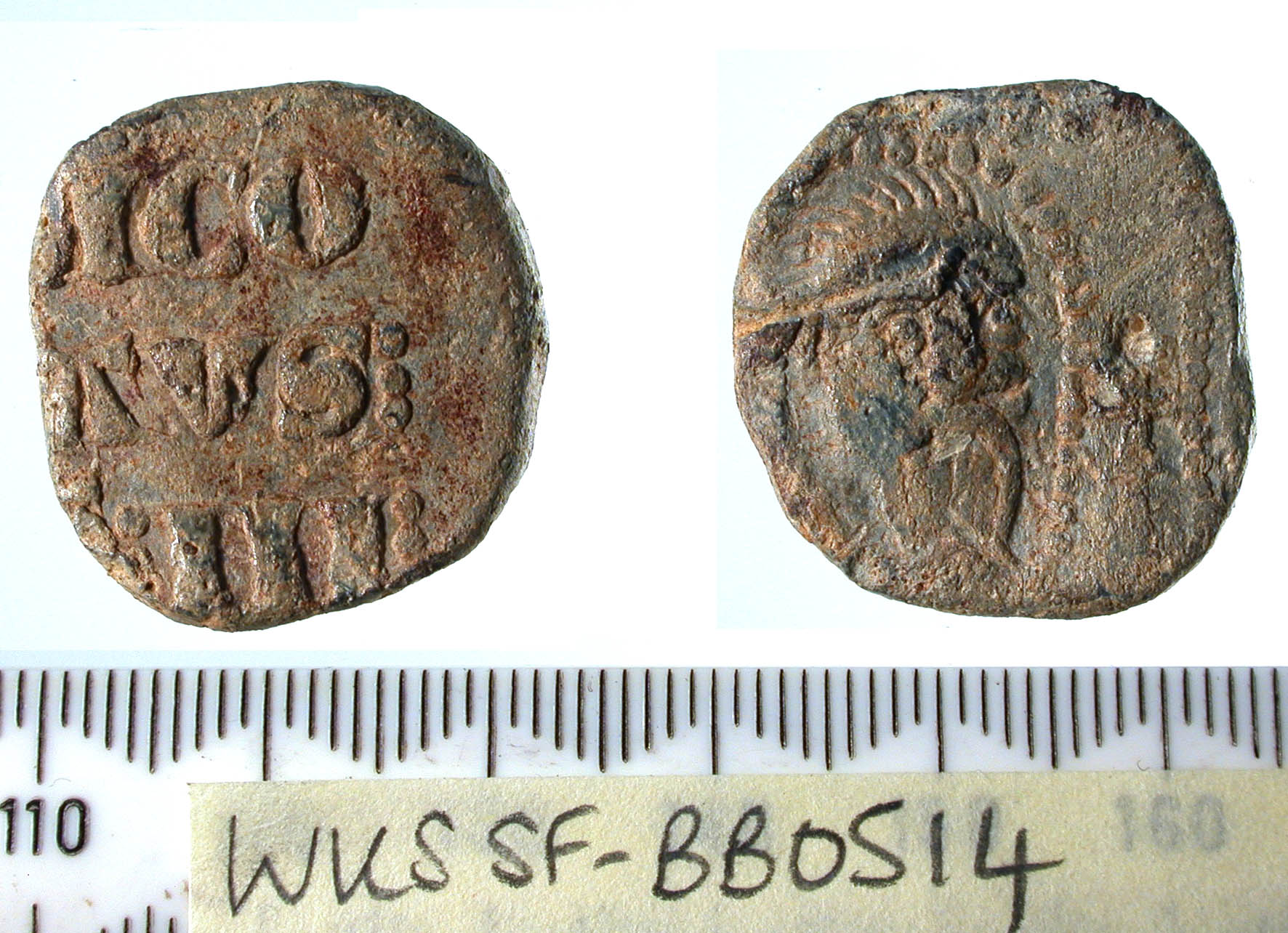 An incomplete papal lead bulla only roughly a third of which now survives. It is roughly circular in shape and worn, now measuring 25.2mm in diameter and 4.5mm in thickness. The obverse reads [N]ICO/[L]AVS/[PP]III, with the first letters of each line of the inscription missing due to the incompleteness of the bulla. On the reverse there is the head of St Peter, within a compartment defined by beading, which would have originally have been facing the head of St Paul with a cross pattee with long foot in between the two. It is most likely to be of Pope Nicholas III, 1277-1280; a complete example is illustrated in the Salisbury and South Wiltshire Museum Medieval catalogue (Egan, 2001, 87, 89, no 3).